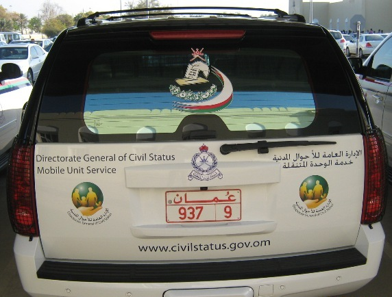 Royal Oman Police - Civil Status mobile registration enrolments are carried in 4 wheel drive vehicles